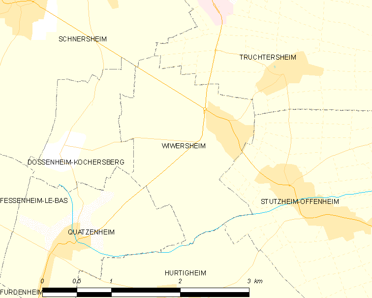 Map of French municipality